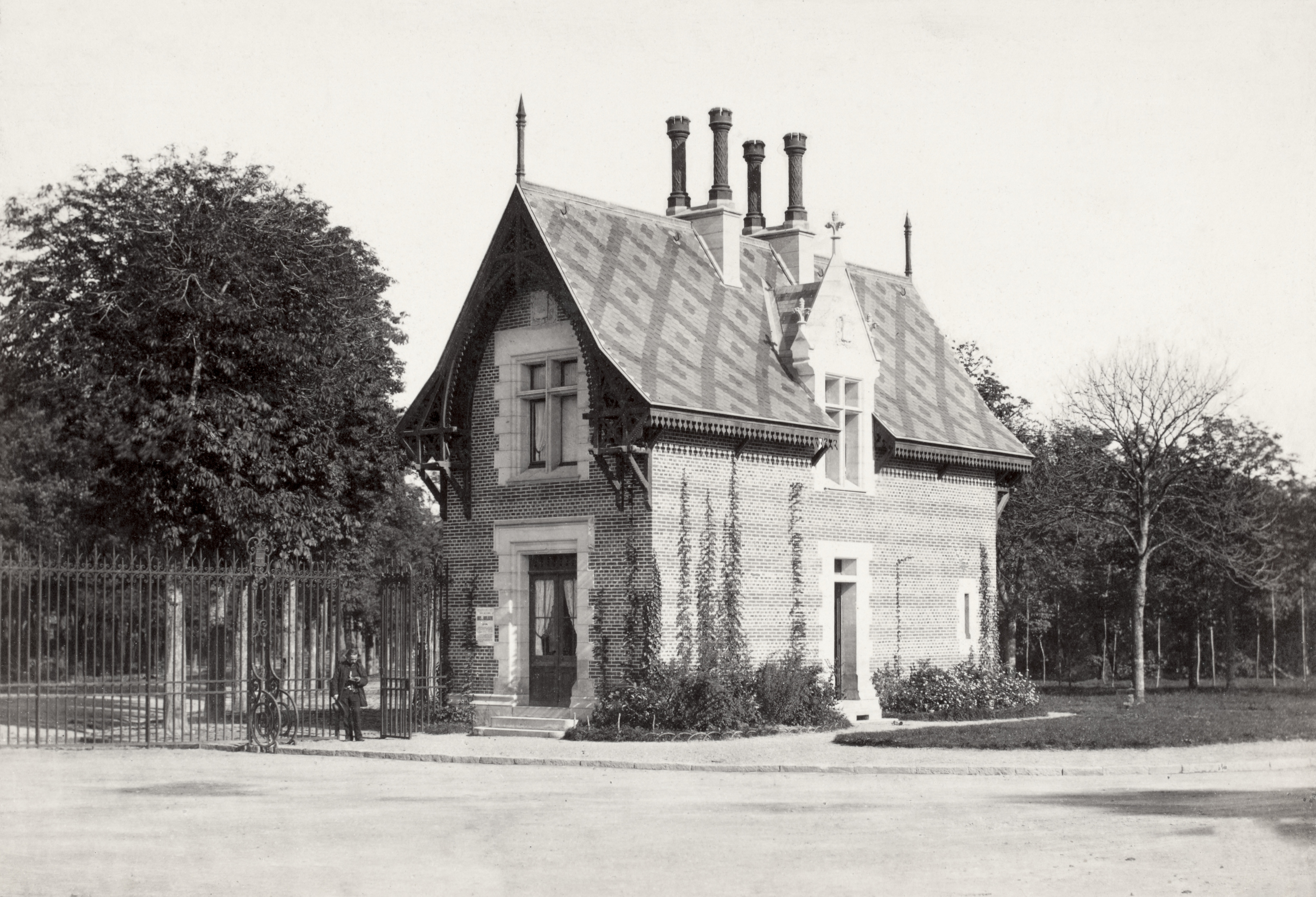 Brick building with bichromic tiled gabled roof, pediment over upper window; railing fence of park adjoining building, park attendant standing near open gate in fence. Architect : Gabriel Davioud.